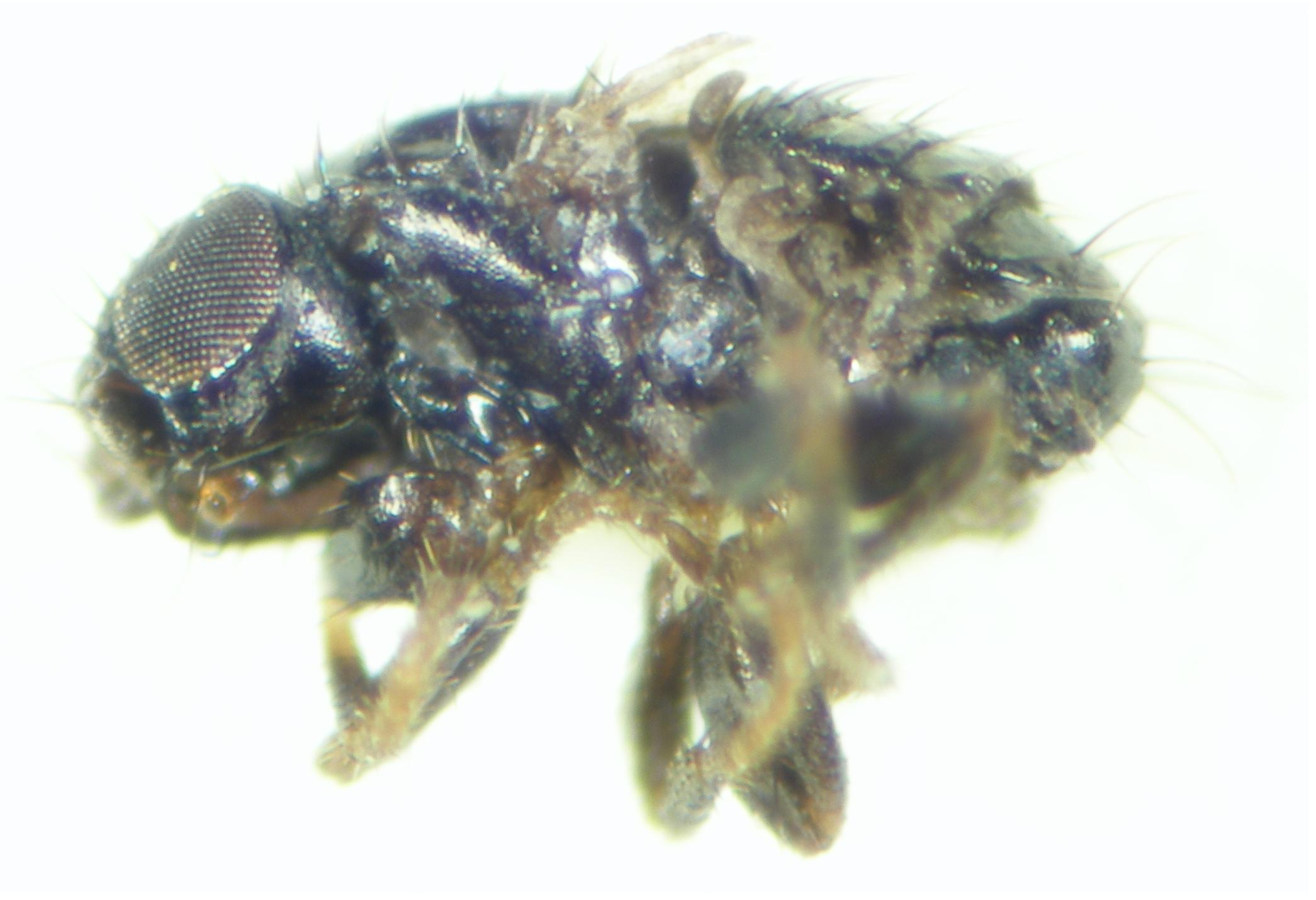 Carnus hemapterus, adult male. Collected from white stork (Ciconia ciconia) nestling